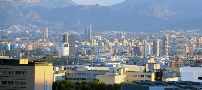 MurcieSkyline